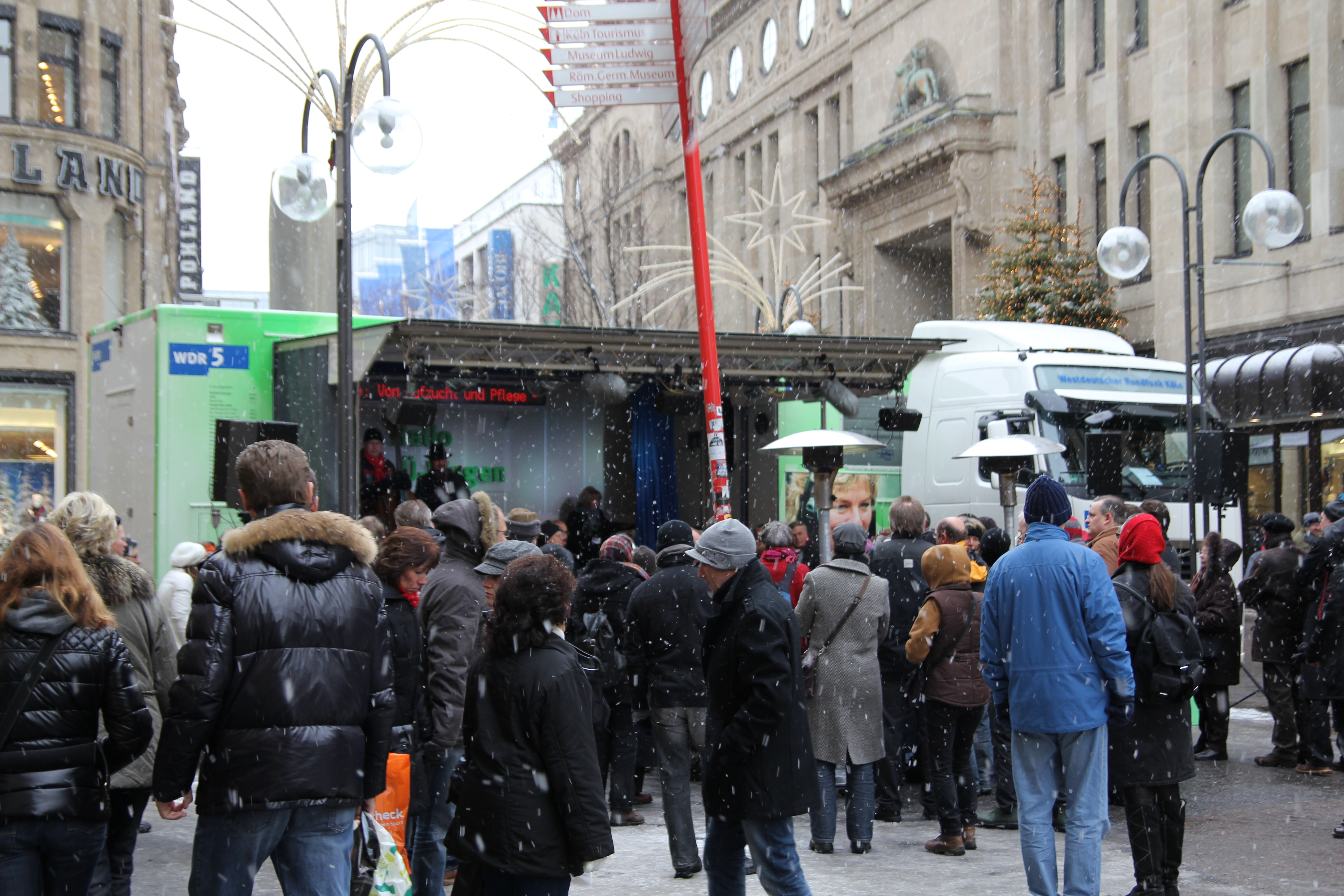 Radioshow "Hallo Ü-Wagen" in Cologne, Germany